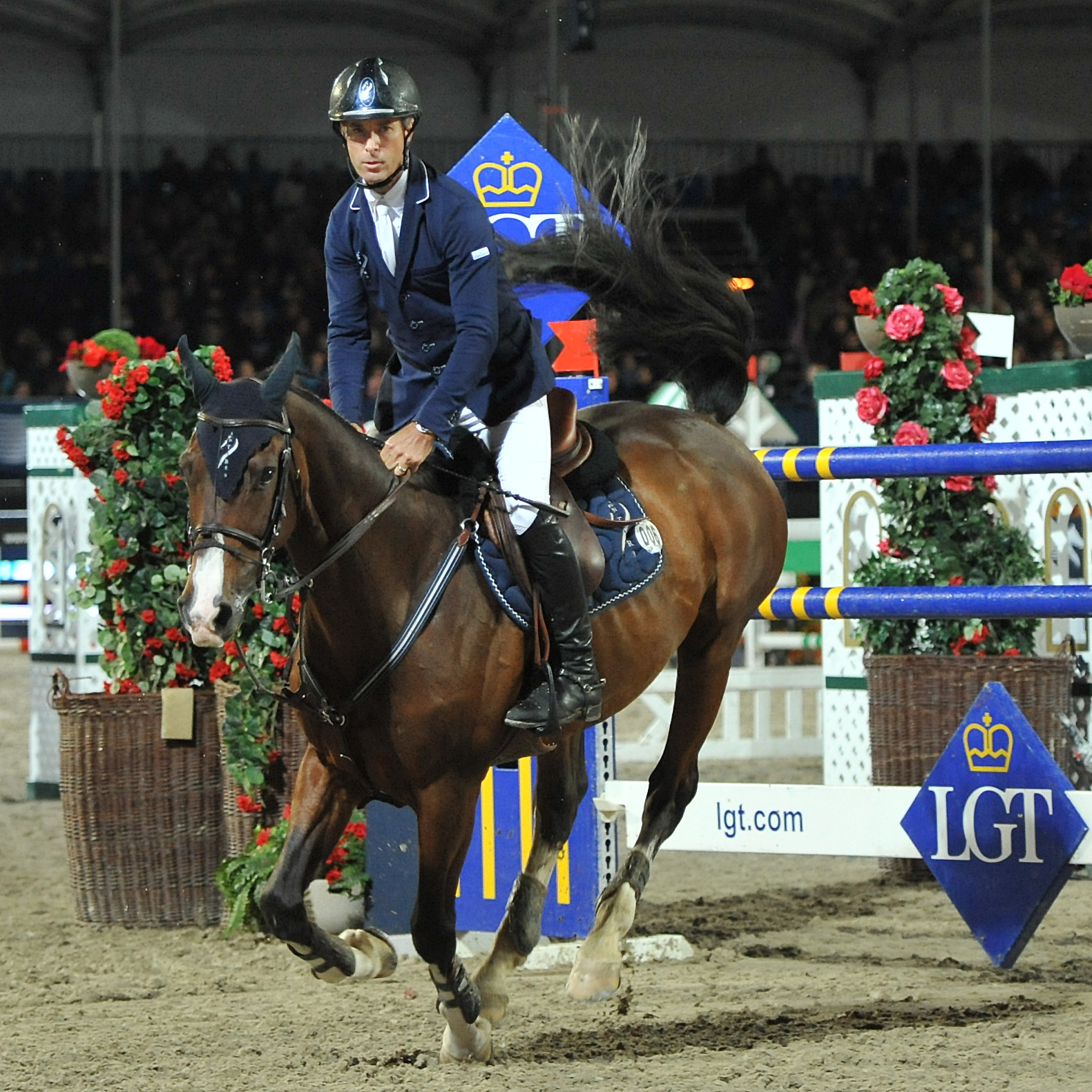 Vienna Masters am 21. September 2013 Longines Global Champions Tour Richard Spooner (USA) auf Cristallo